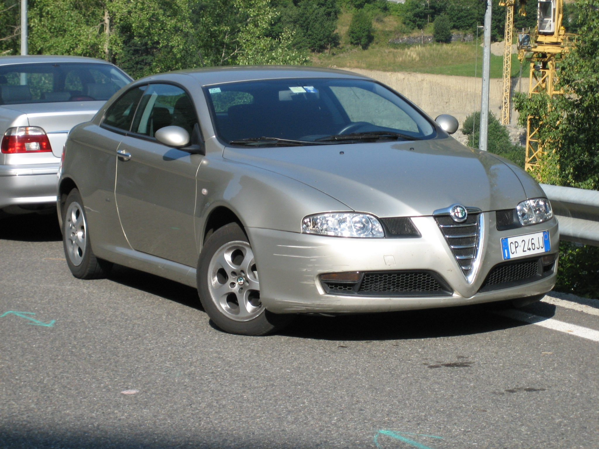 Alfa Romeo GT in Anyós, La Massana, Andorra